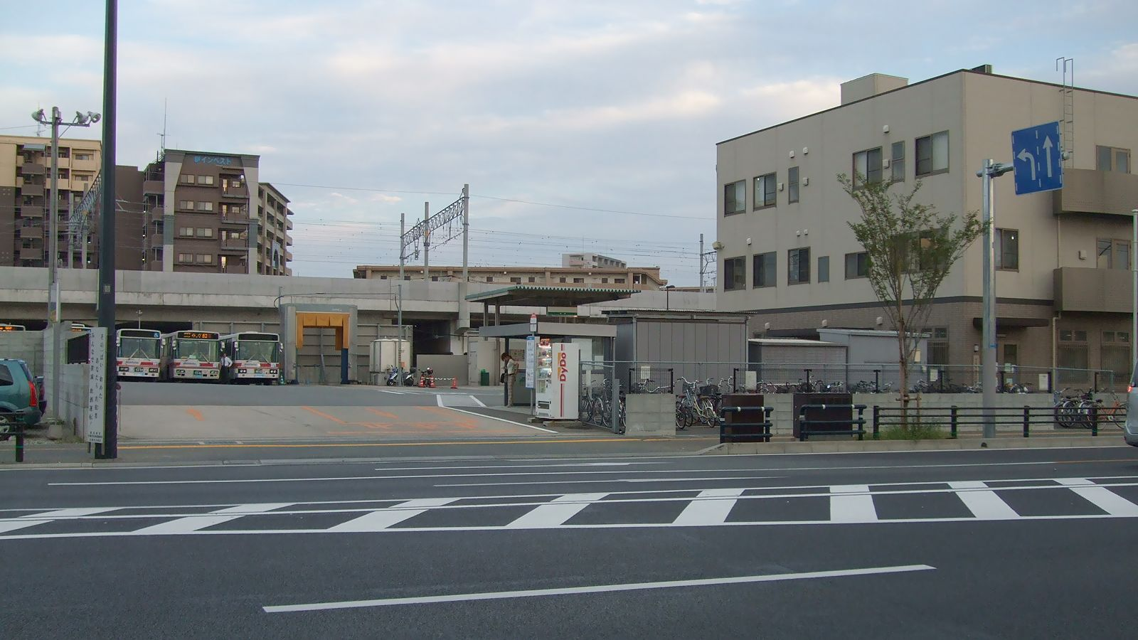 Nishitetsu bus Yoshizuka Depot